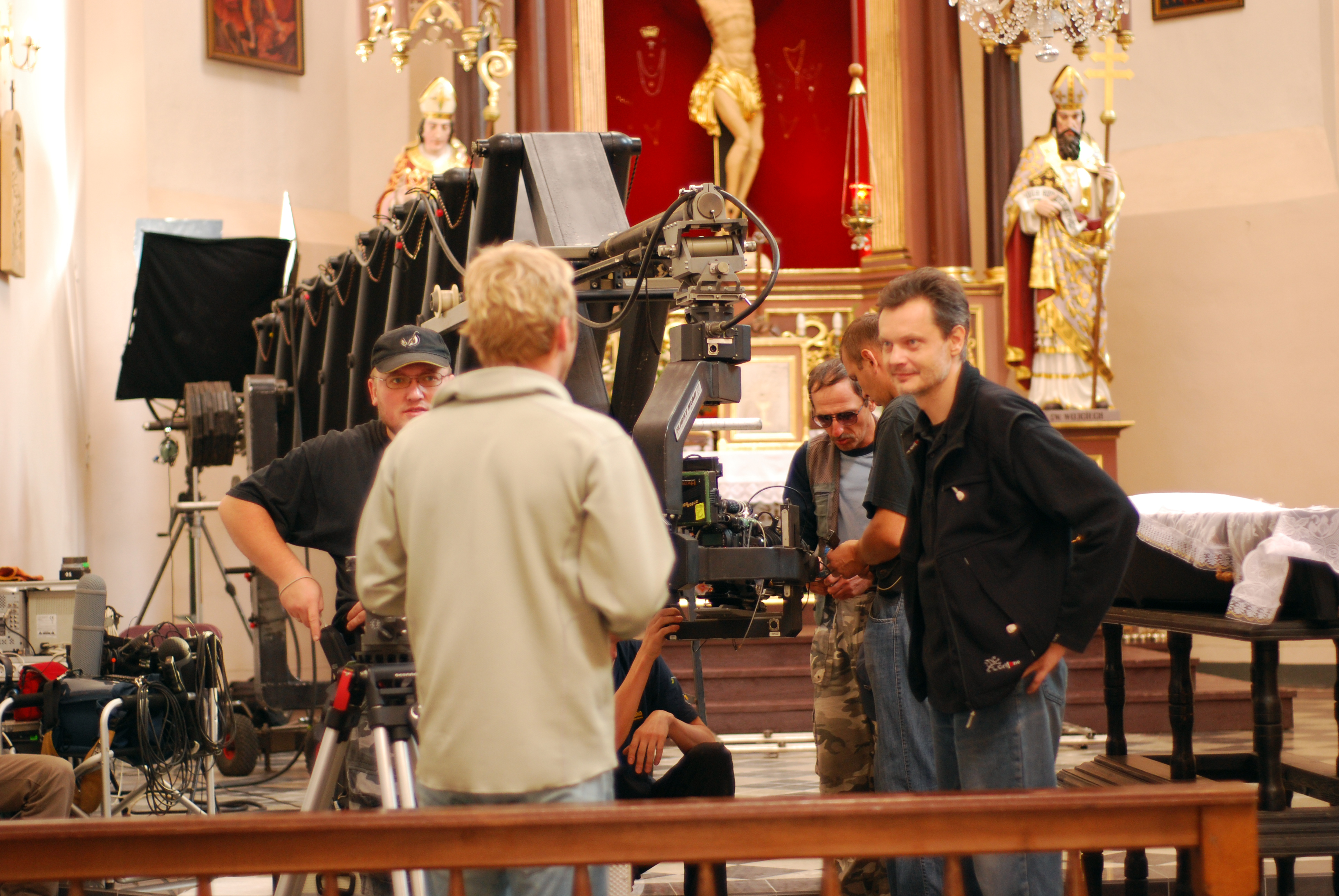 Horodok (Ukraine). Ihor Podolchak(director) and Mykola Yefymenko (DoP).